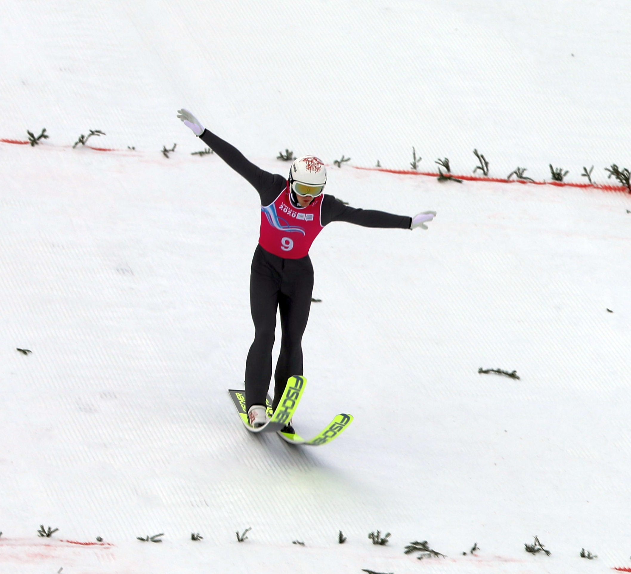 Nordic combined at the 2020 Winter Youth Olympics – Boys' individual normal hill/6 km – Jan Andersen lands his jump.